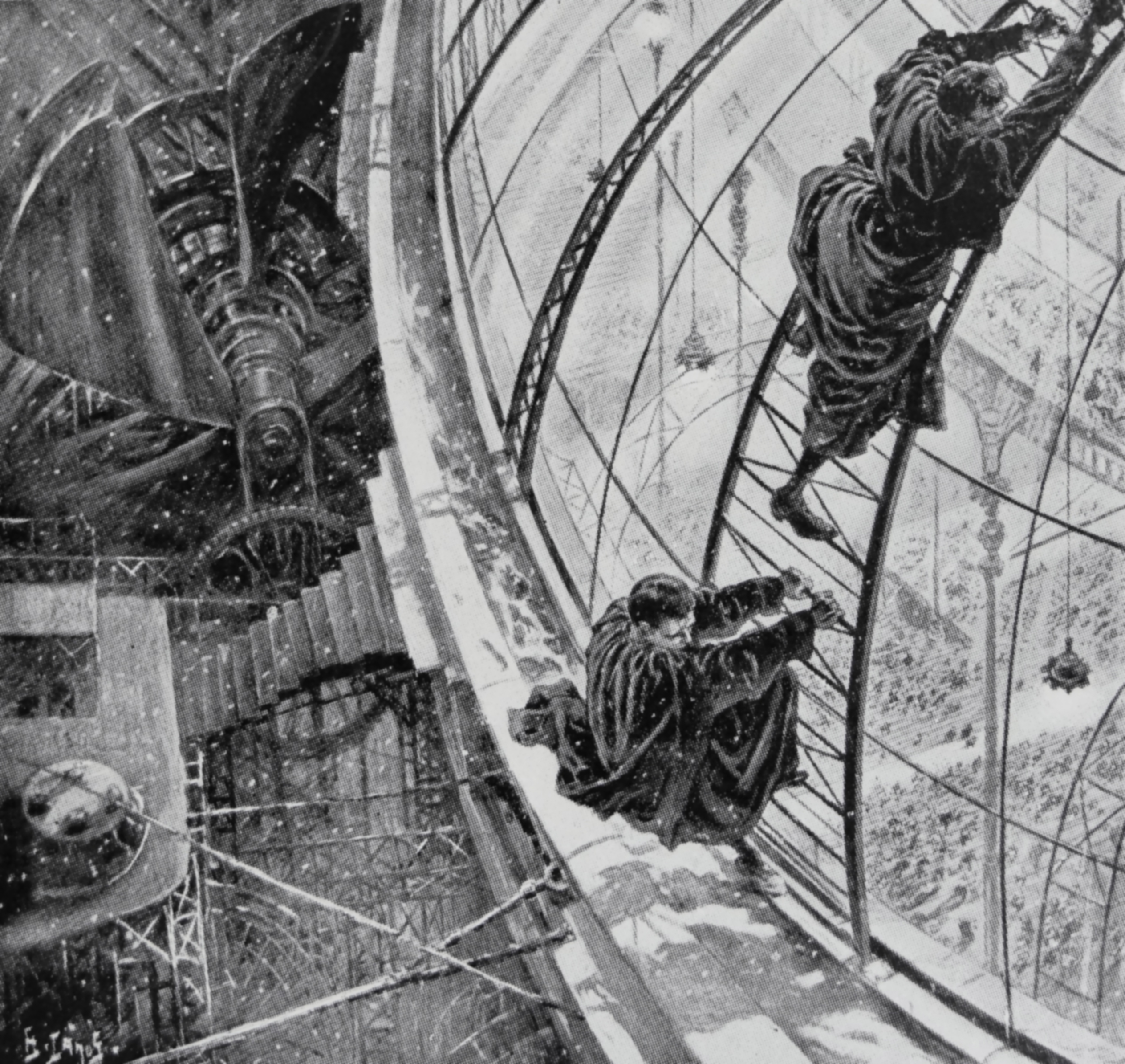 "Graham's Escape." Art by H. Lanos for "When the Sleeper Wakes" by H. G. Wells (1899)